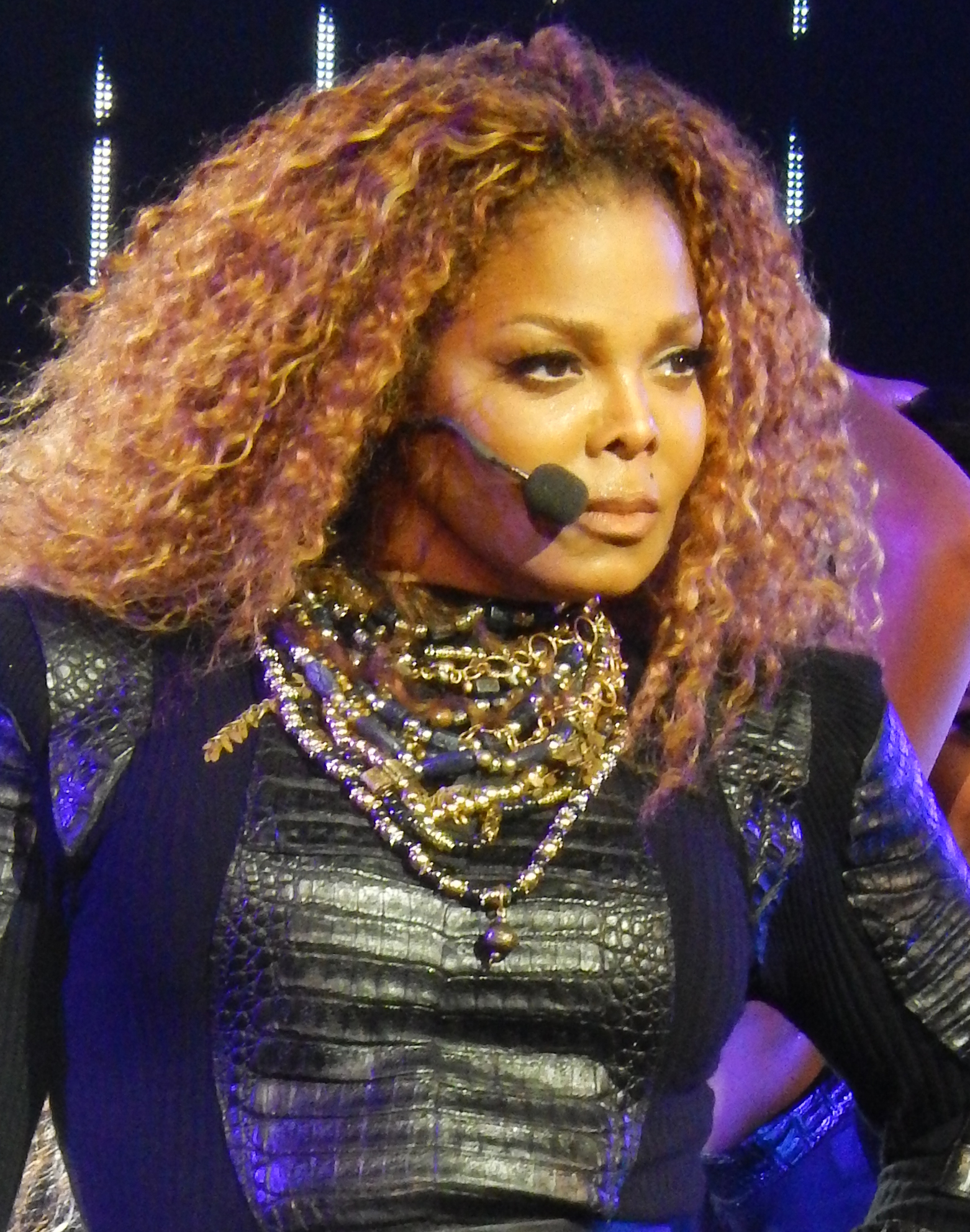 Janet Jackson on her Unbreakable World Tour, Bill Graham Civic Auditorium, San Francisco, California, October 14, 2015